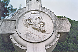 Memorial To St. Francis Xavier, Hirado, Nagasaki, Japan